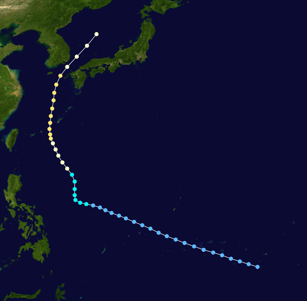 Typhoon Caitlin 1991 track. Uses the color scheme from the Saffir-Simpson Hurricane Scale.